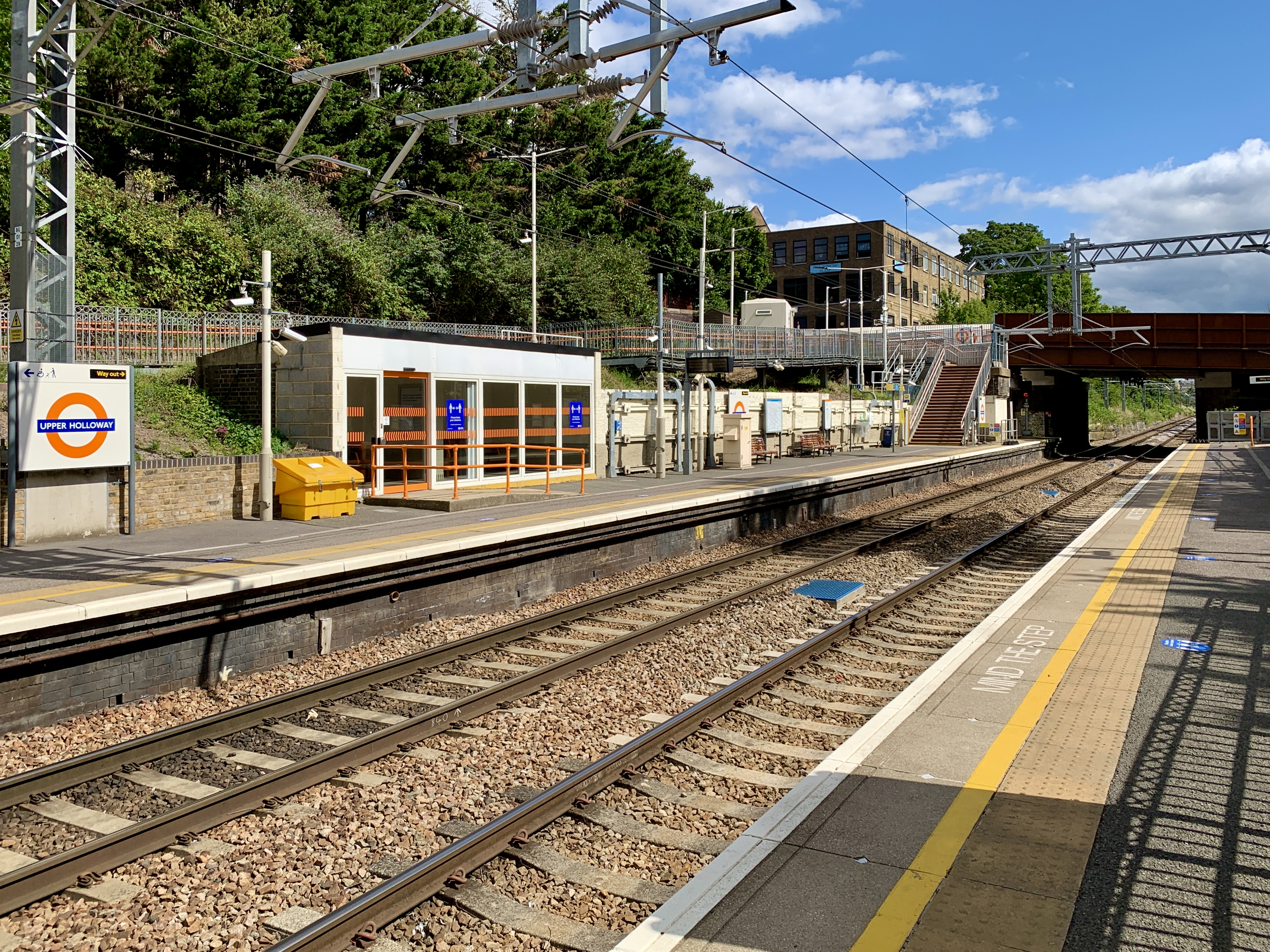 Upper Holloway in July 2020, as seen from platform 1 towards Gospel Oak